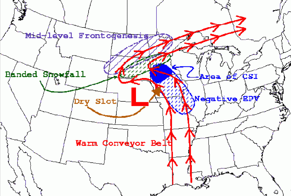 From a Central Region Snow Workshop, powerpoint presentation on CSI This is not from the NWS but rather research from SLU and the CIPS project.